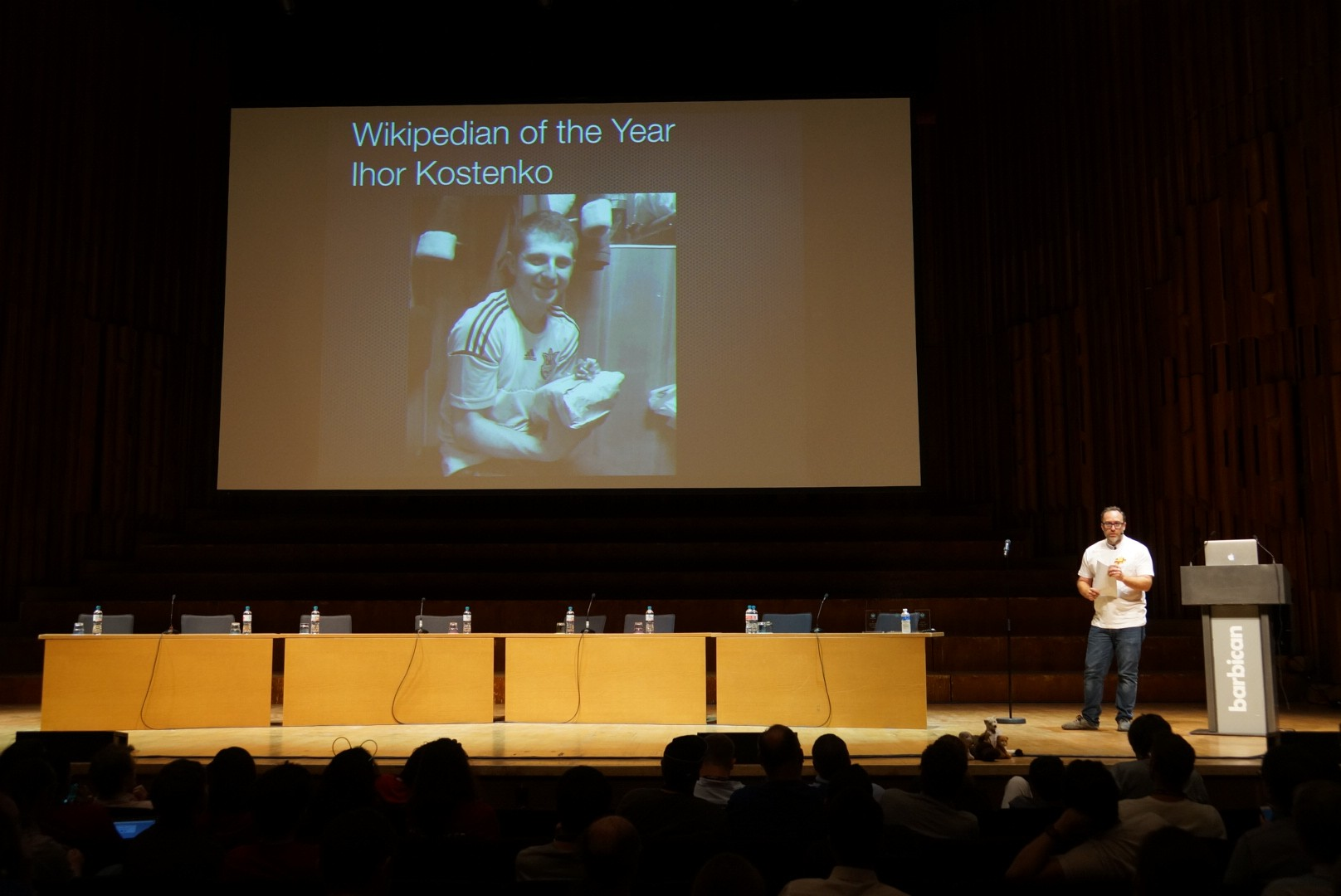 Jimmy Wales announces Ihor Kostenko as the Wikipedian of the Year at the closing ceremony of Wikimania 2014 in London, UK